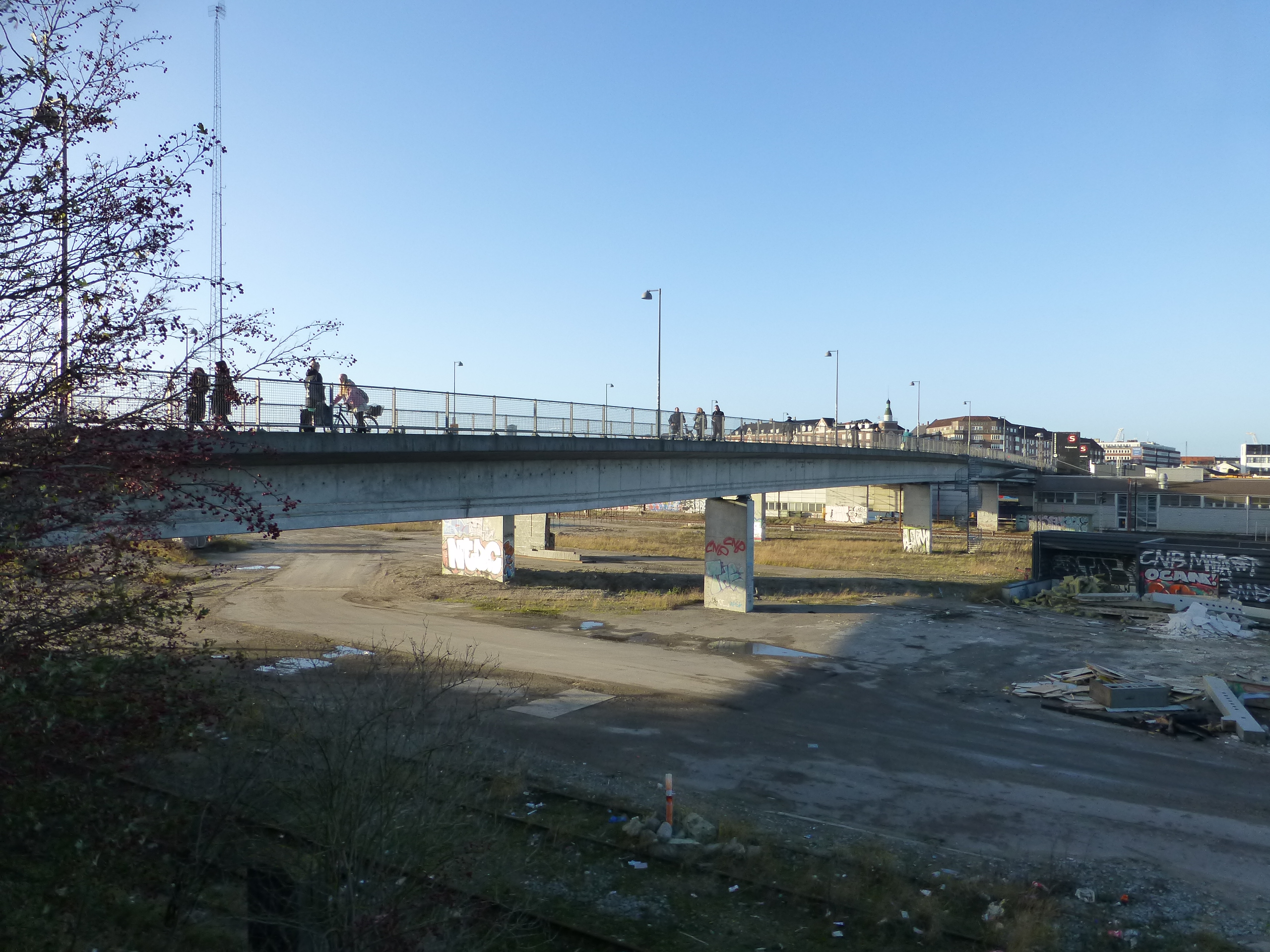 The bridge Dybbølsbro in Vesterbro in Copenhagen.